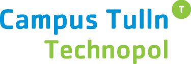 The logo of the Campus Tulln Technopol. weitere Informationen